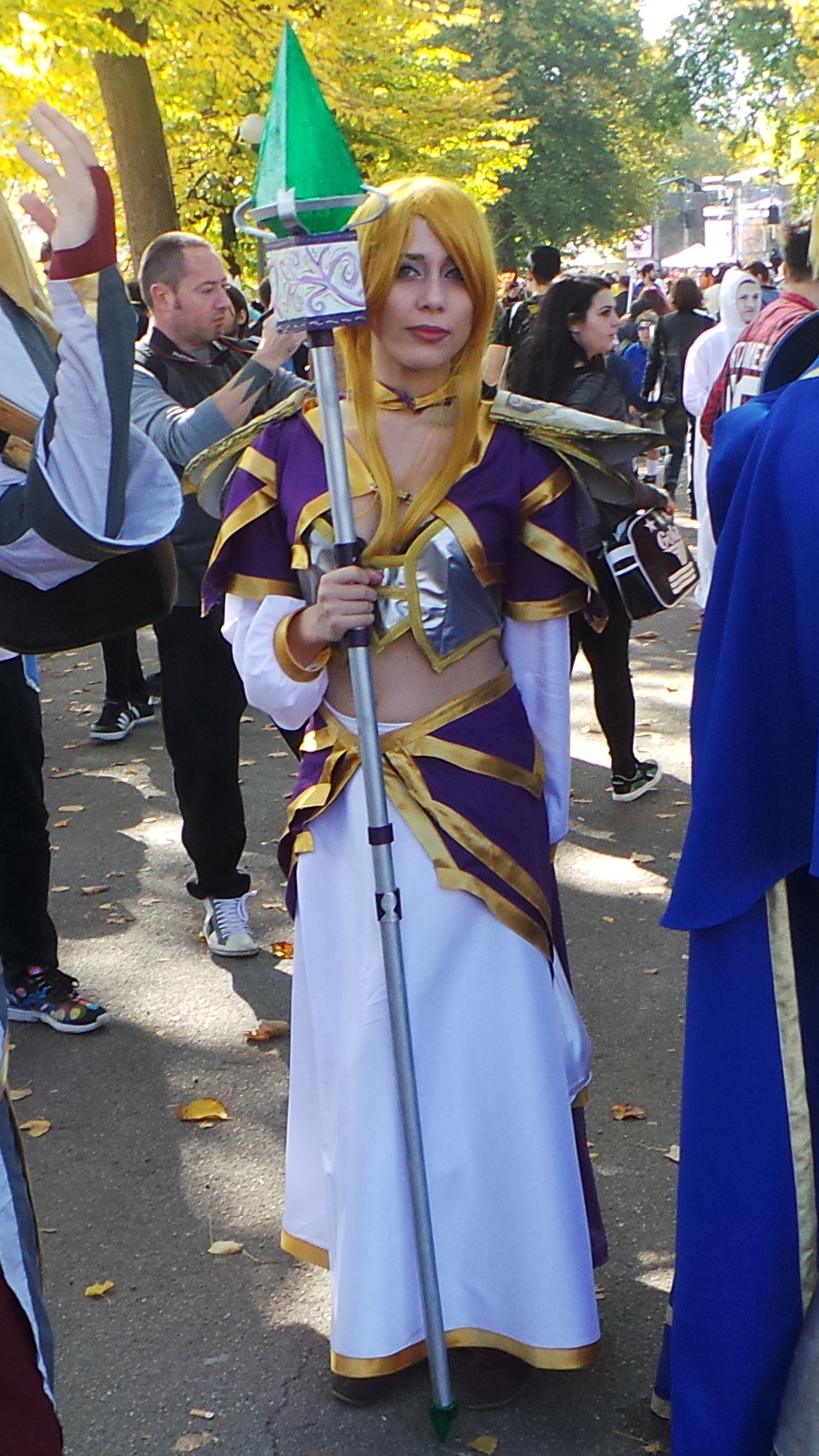 Cosplay at Lucca Comics & Games 2015 - Jaina from Warcraft